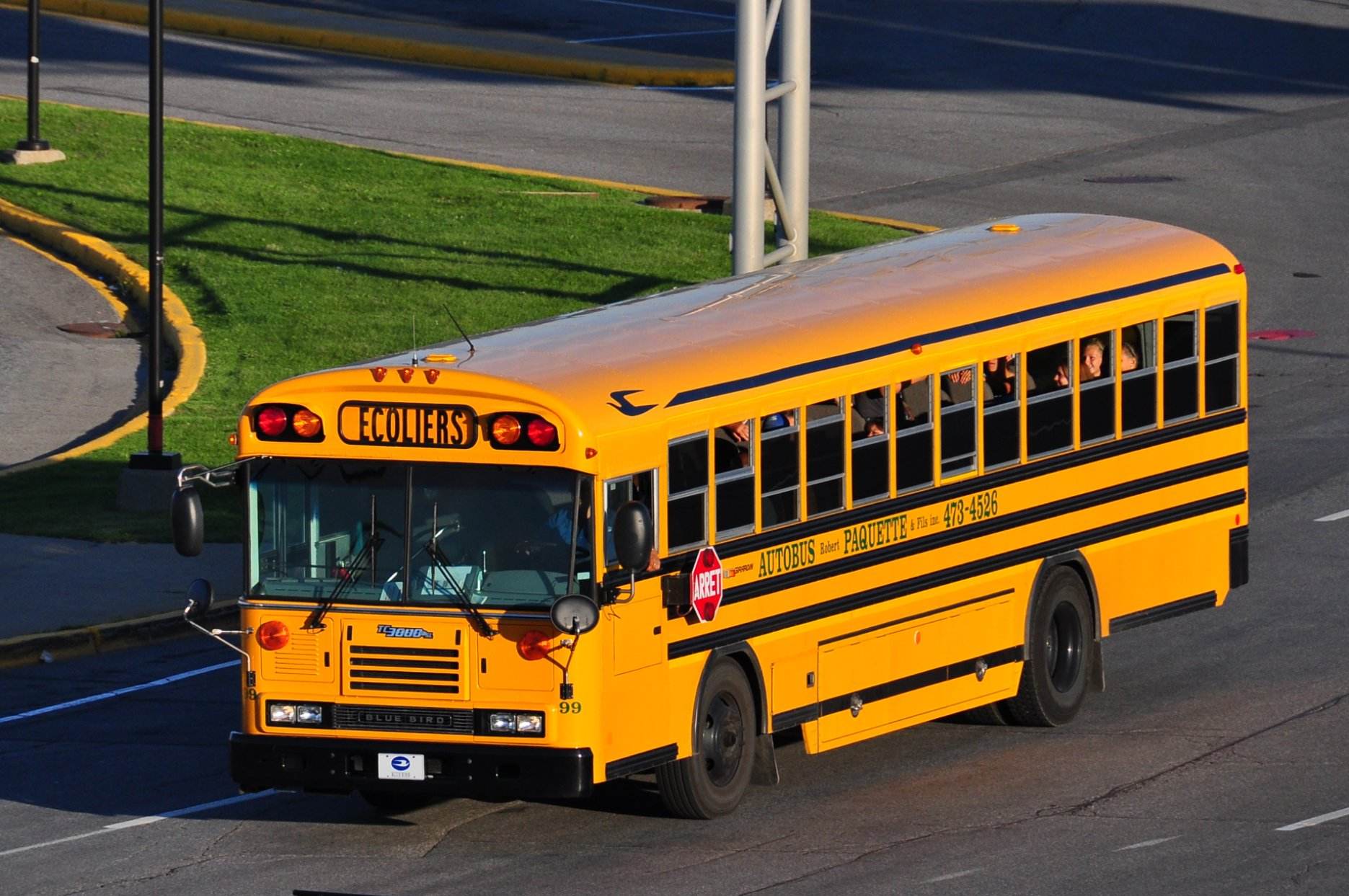 Front 3/4 view of a 78-passenger Blue Bird TC/3000 Forward Engine photographed in Montreal, Quebec, Canada. Outside of the United States, the Blue Bird All American was given the TC/3000 brand name from 1989-2008. As this bus was sold in Quebec, all of its exterior markings were labeled in French instead of English.